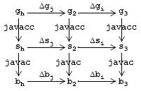 simple commuting diagram that arises in feature-based program synthesis